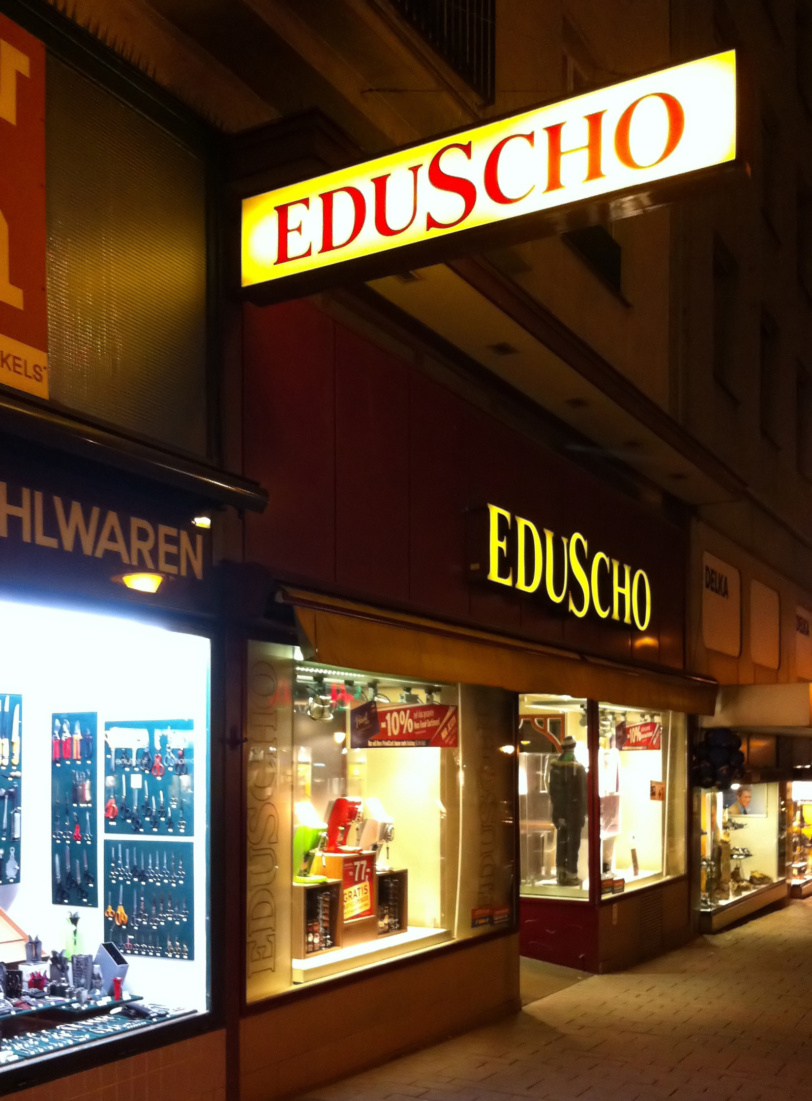 Shop Eduscho Coffee in Vienna, Austria